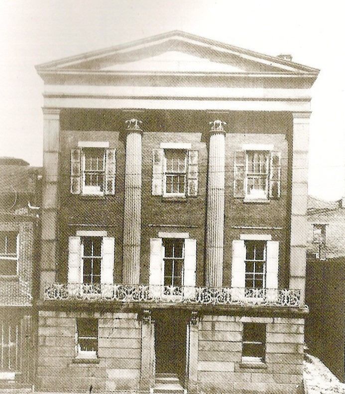 The first Wilmington NC “Custom’s House” was destroyed in a waterfront fire in 1840. It was replaced by a second "Custom’s House" which lasted until being demolished in 1915. The third "Custom’s House/United States Courthouse" was designed by James A Wetmore in a classical revival style. The three-story building on the Cape Fear River waterfront was completed in 1919 and stretches a full block in length. The building was renamed the Alton Lennon Federal Office Building in 1976 after a former US Congressman from Wilmington. It is currently the US District Court for the Eastern District of North Carolina.